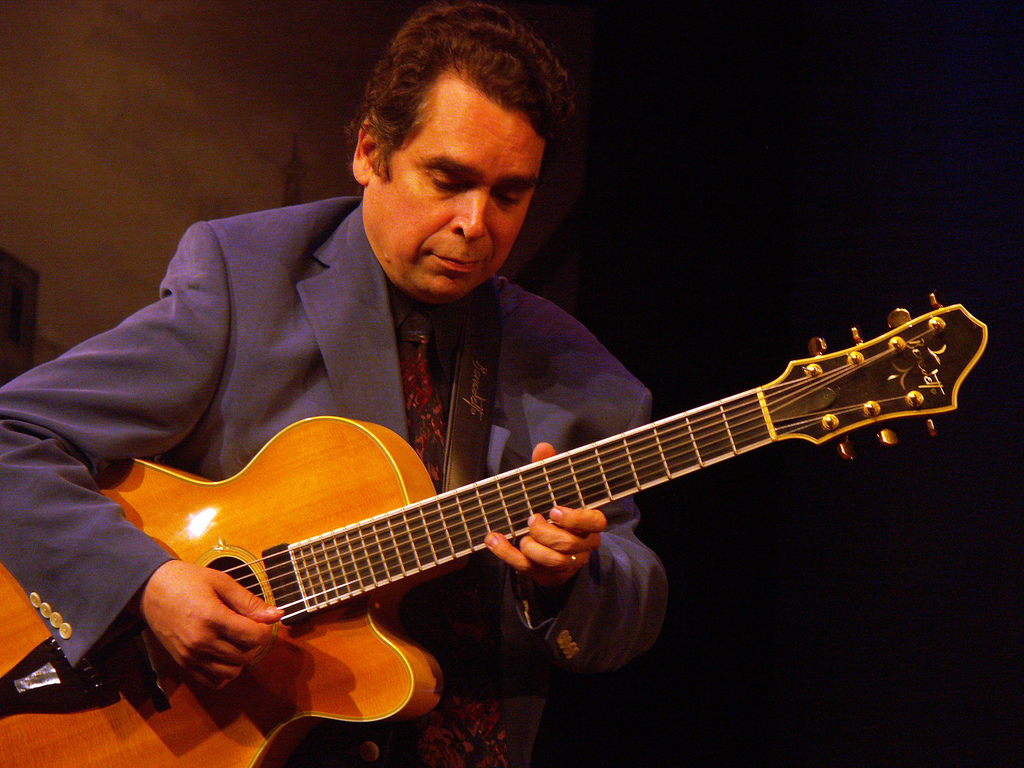 Howard Alden Gypsy Project, Djangofest Northwest Sept. 20, 2007 - Set 2 WICA, Langley, Whidbey Island, WA